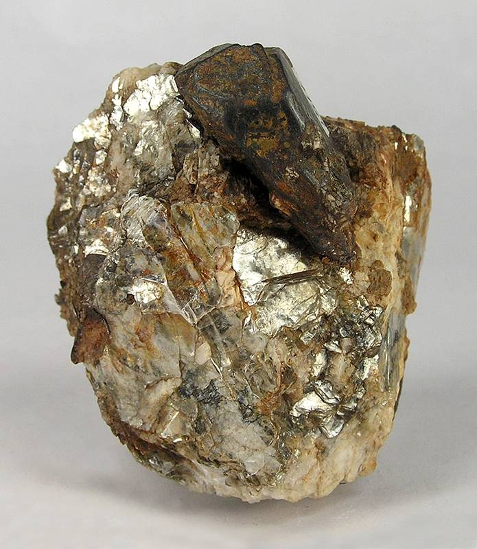 Columbite Locality: Middletown, Middlesex County, Connecticut, USA (Locality at ) A 3.5 cm crystal of columbite aesthetically perched on a miniature-size pegmatite matrix of muscovite & albite. John Caswell (catalog #1511) acquired this historic specimen from the Newberry collection in 1878; more recently, this specimen was acquired by me in 2001 from Steve Chamberlain, who received it from Ron Bentley in 1980. 5.7 x 4.7 x 3.8 cm